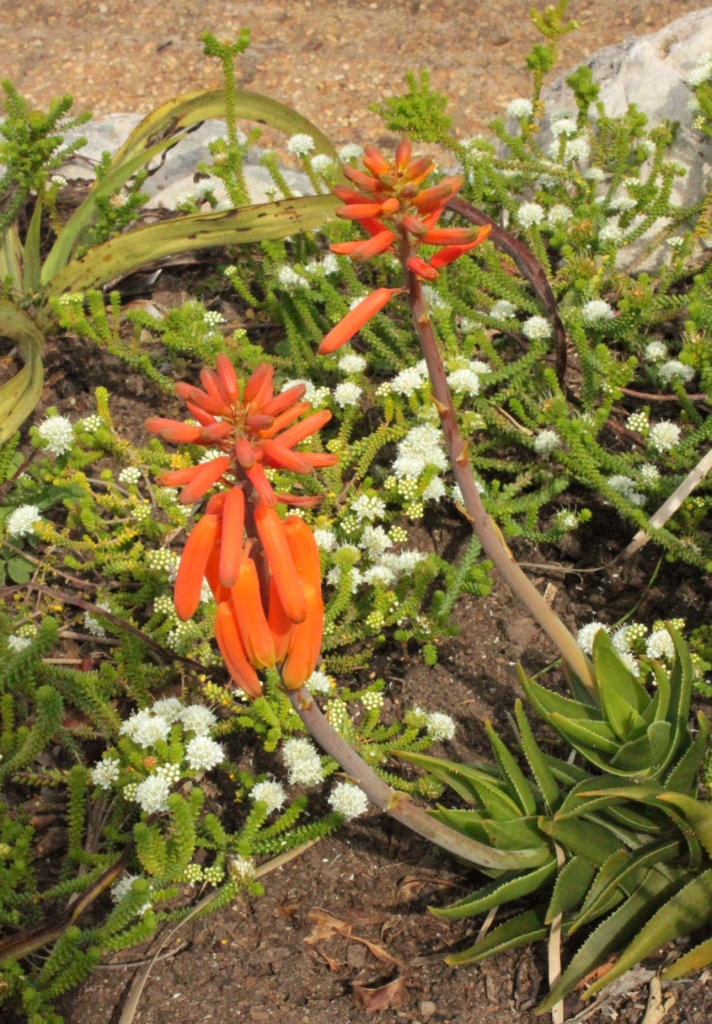 Rare Koudeberg Aloe in flower in Cape Town botanical garden.